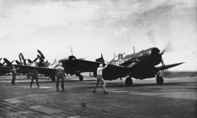 U.S. Navy Vought F4U-4 Corsairs of Bombing Fighting Squadron 74 (VBF-74) "Cavaliers" launch from the newly commissioned aircraft carrier USS Midway (CVB-41). VBF-74 was assigned to Carrier Air Group 74 (CVBG-74) aboard the Midway for her shakedown cruise to the Caribbean from 7 November 1945 to 2 January 1946.